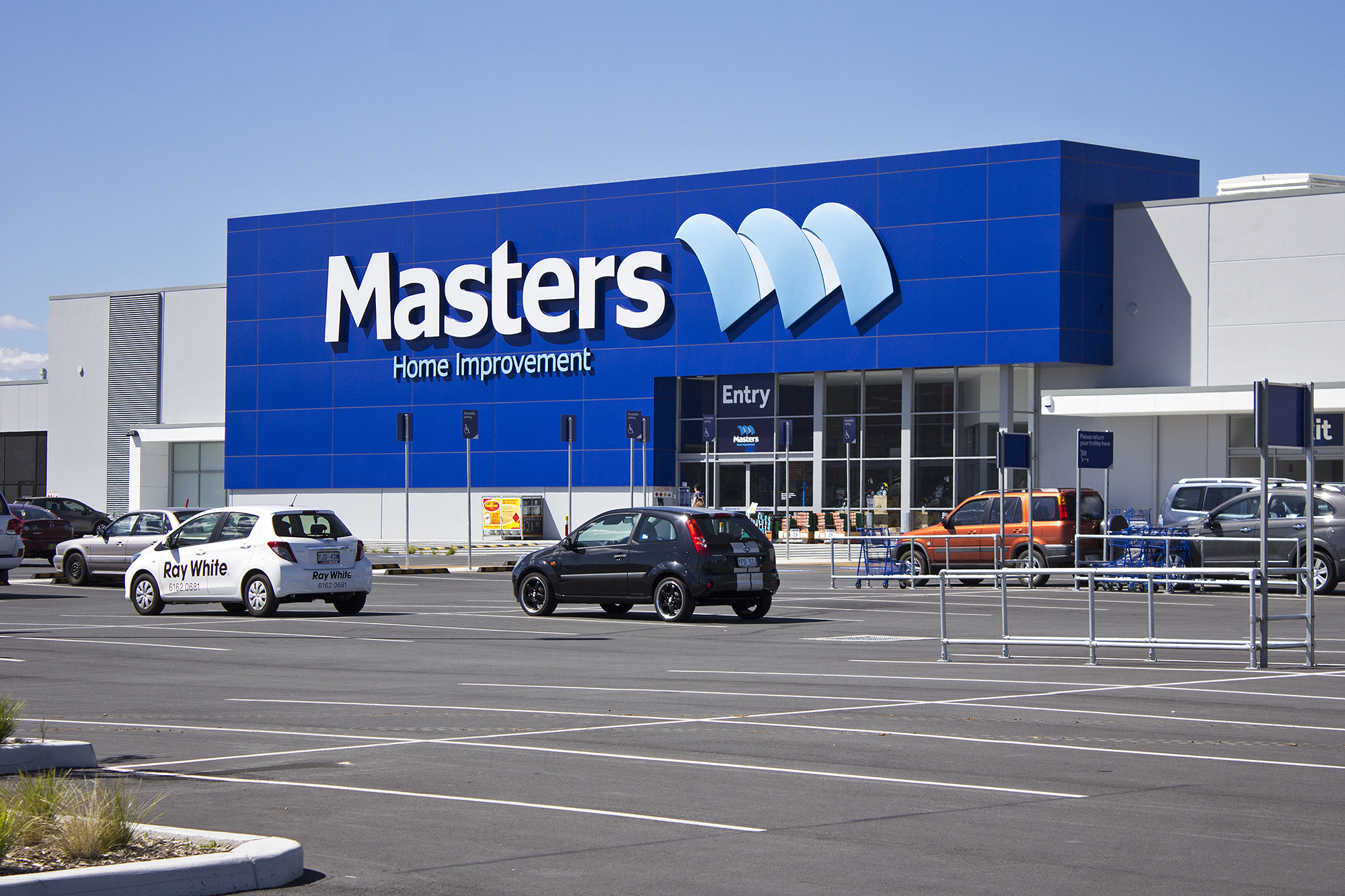 Masters Home Improvement store at Majura Park in the Canberra suburb of Majura, Australian Capital Territory.